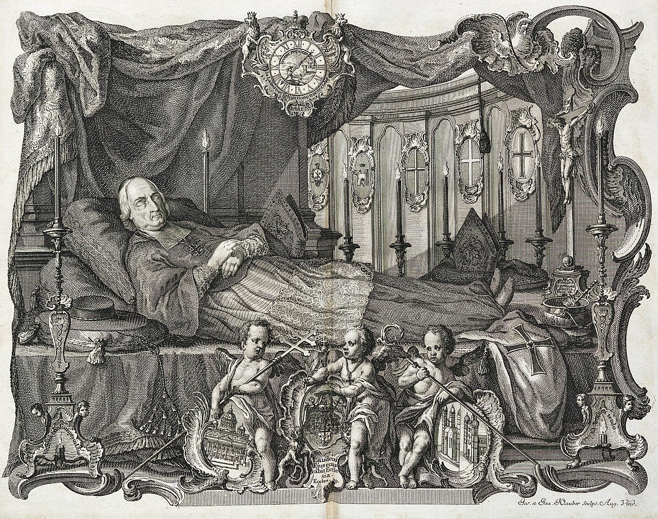 Cardinal Damian Hugo Philipp von Schönborn (1676-1743) on the deathbed